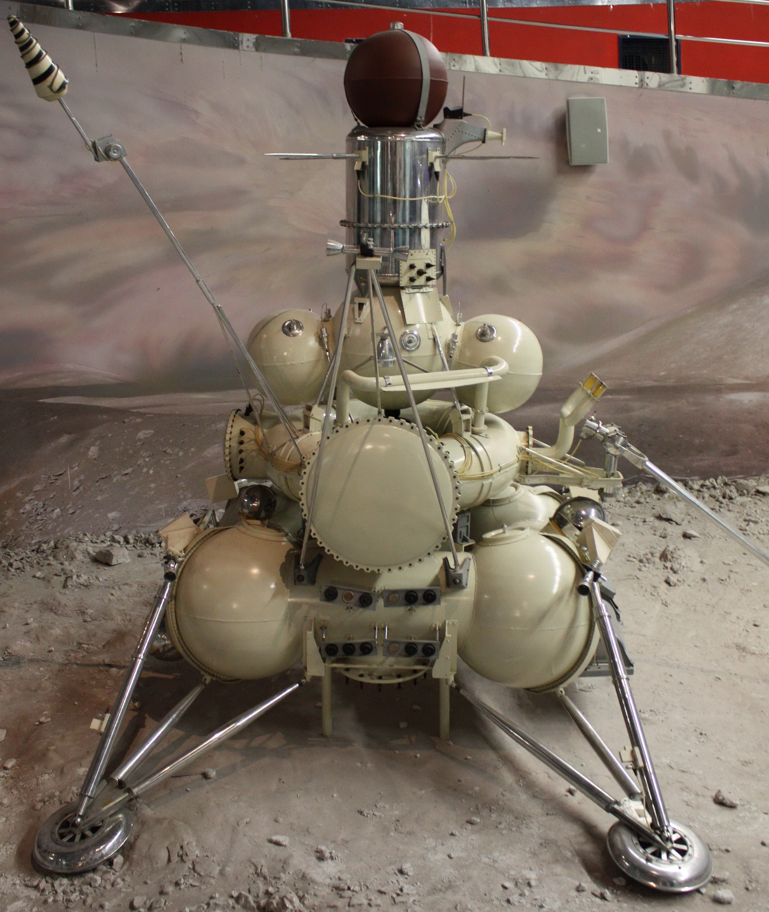 Luna 16 (USSR Luna sample return spacecraft) in the museum space in Moscow